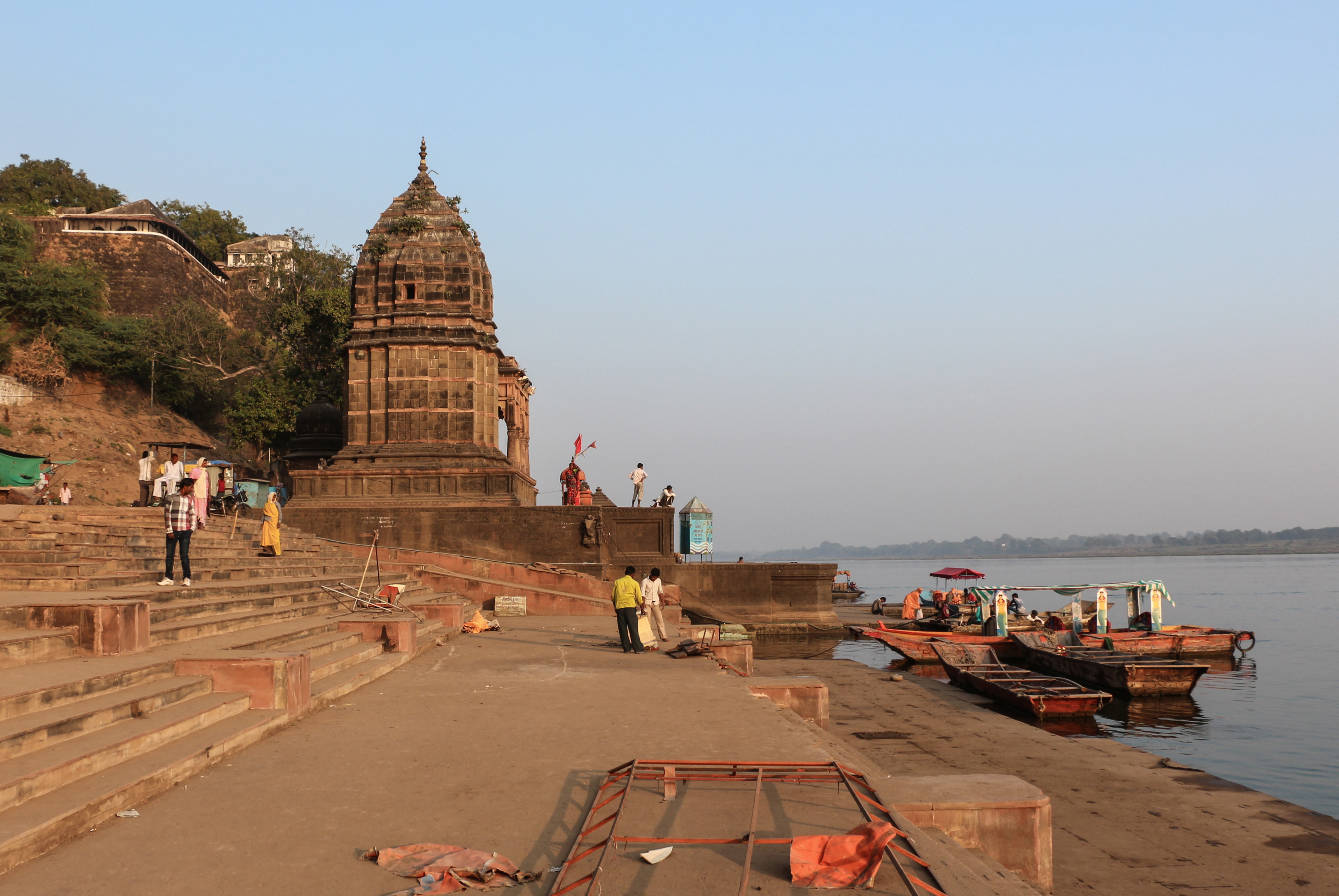 Laxmi Bai kii Chhatri on the ghats of Maheshwar, India